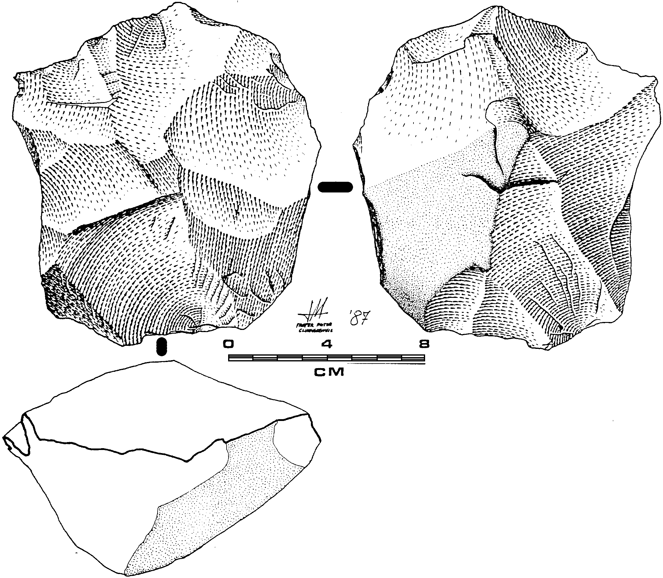 Lithic core in quartzite with centripetal knaping, its comes from a fluvial quaternary terrace in Trabancos brook (Valladolid, Duero basin, Spain) and it is dated in Acheulean period (Lower Paleolithic)